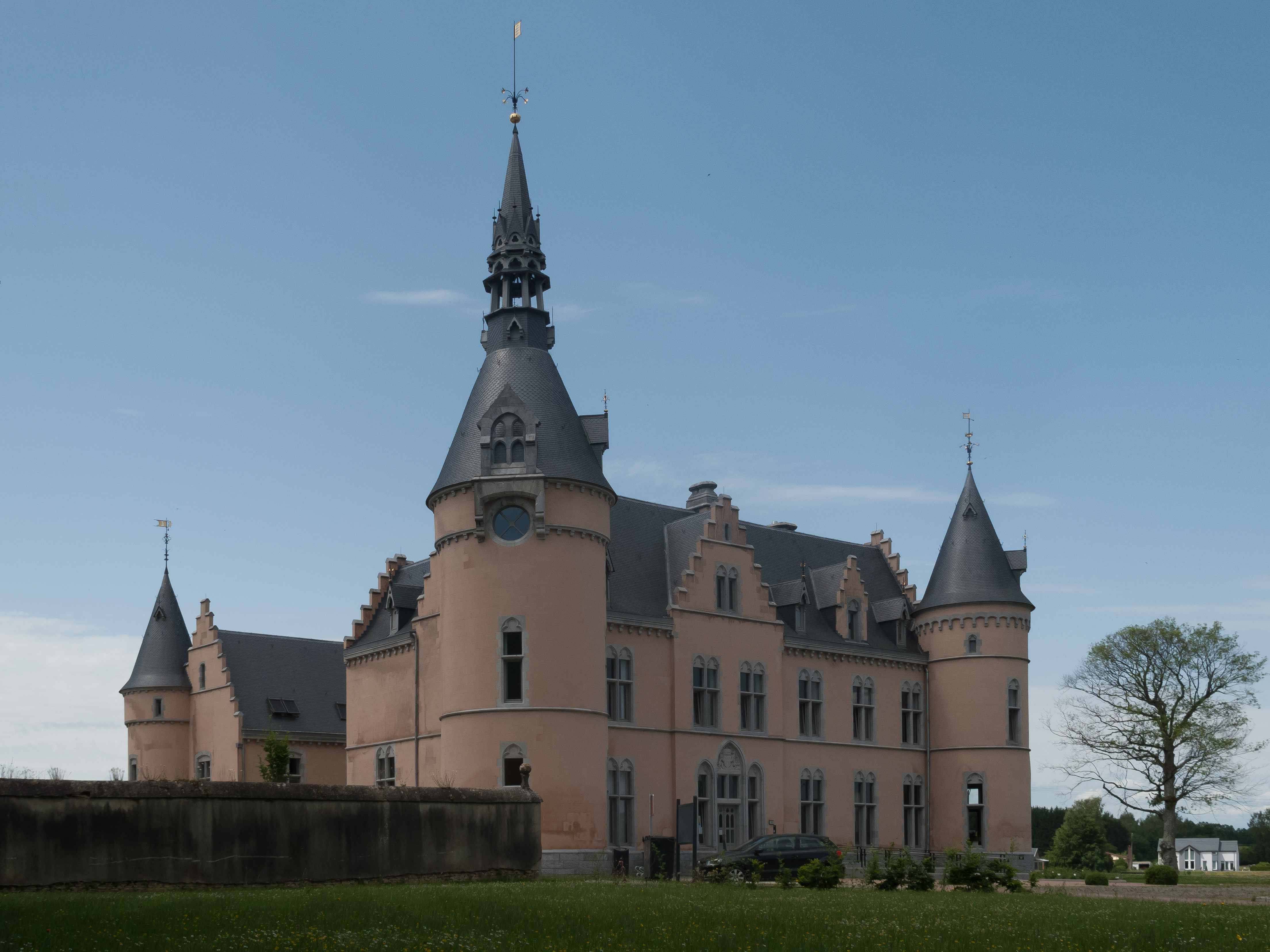 Jamoigne, castle: chateau du Faing